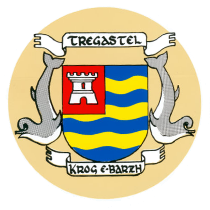 Blason Trégastel (22) (France)